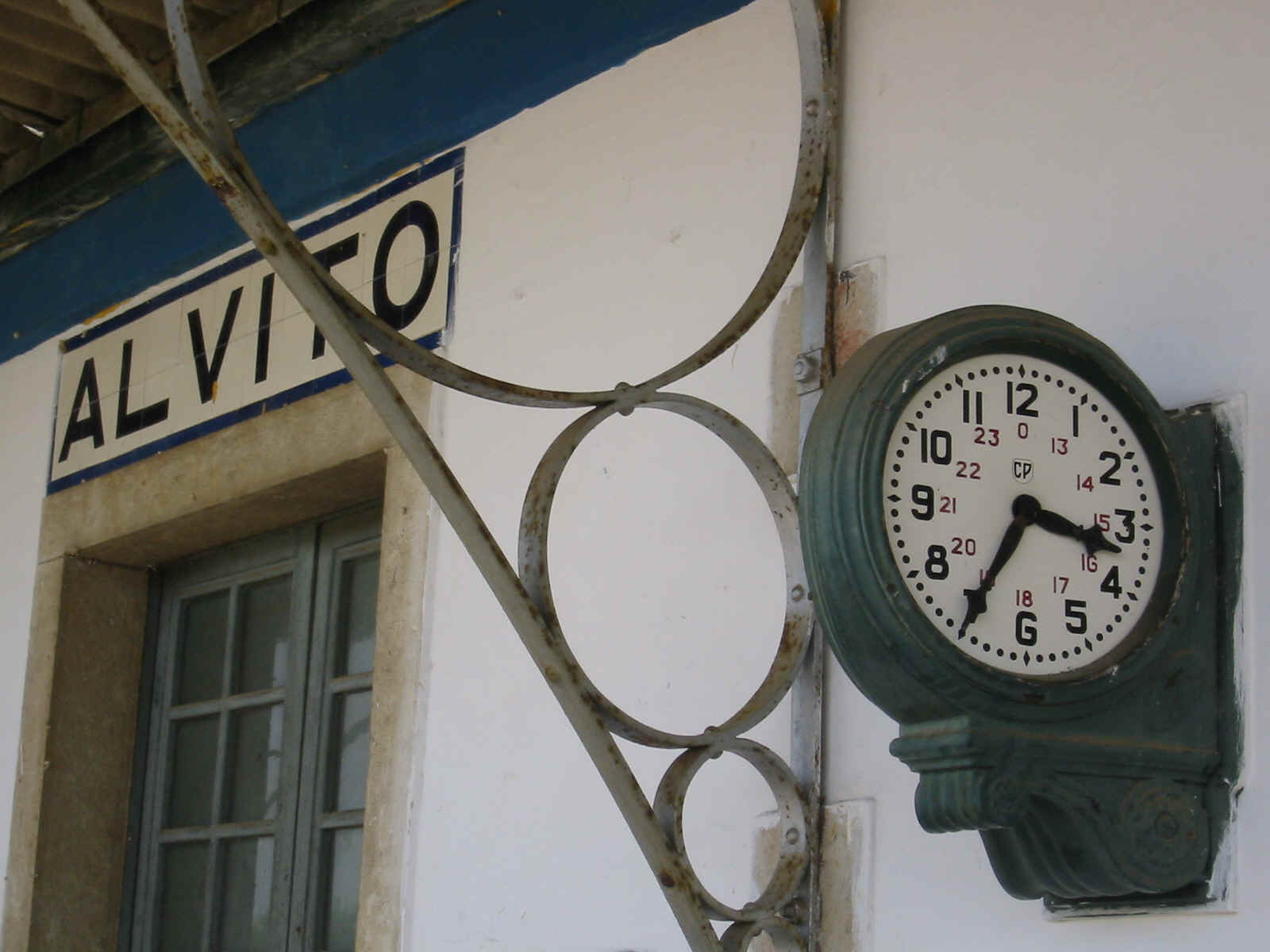 Railway Station of Alvito with historical Clock